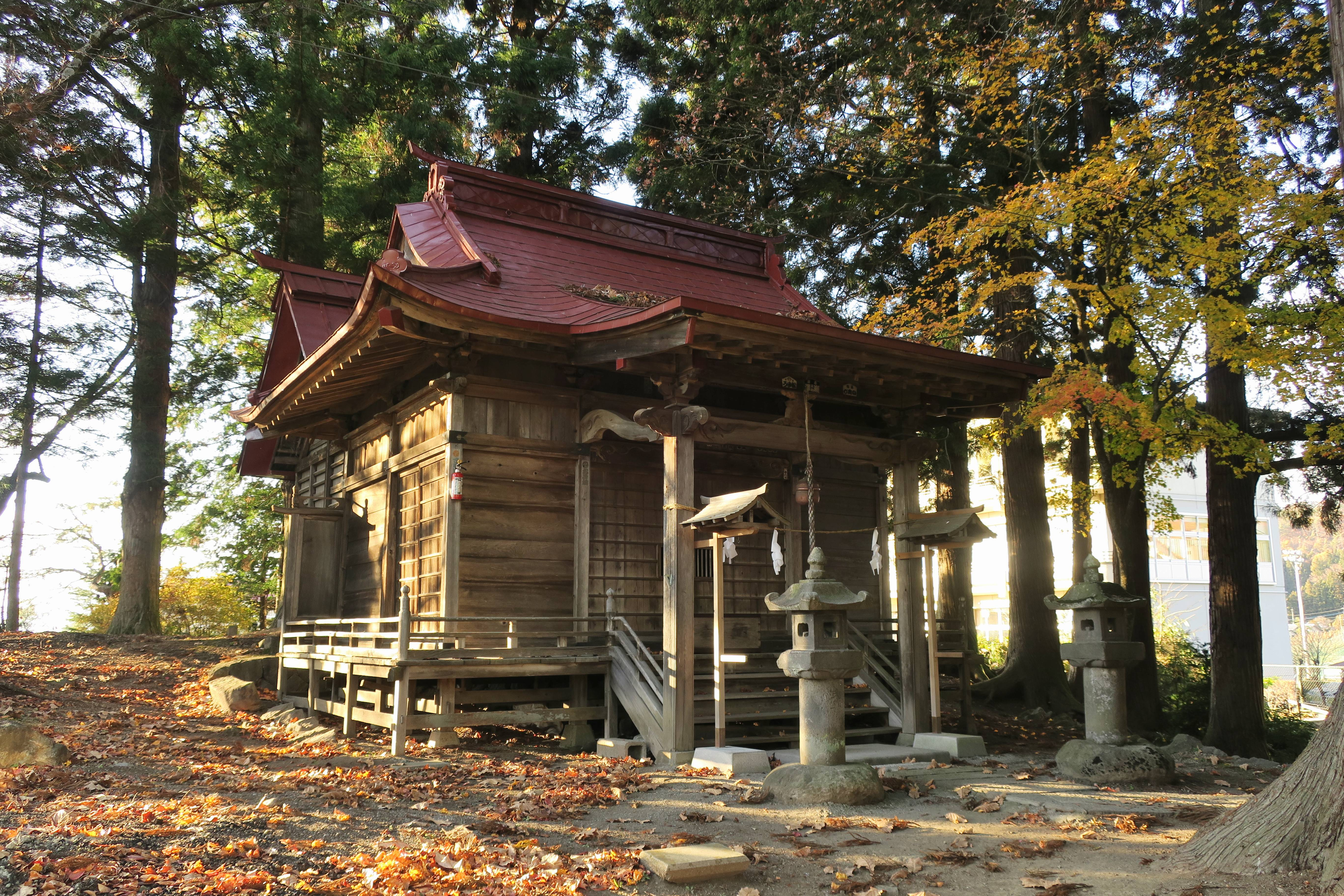 Shirasawa-jinja (Numata, Gunma).